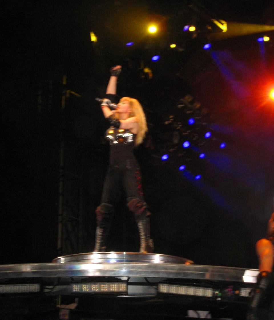 Madonna stands on teh platform while singing the intermediate bridge of "Like a Prayer", as Meck's "Feels Like Home" blares in the background